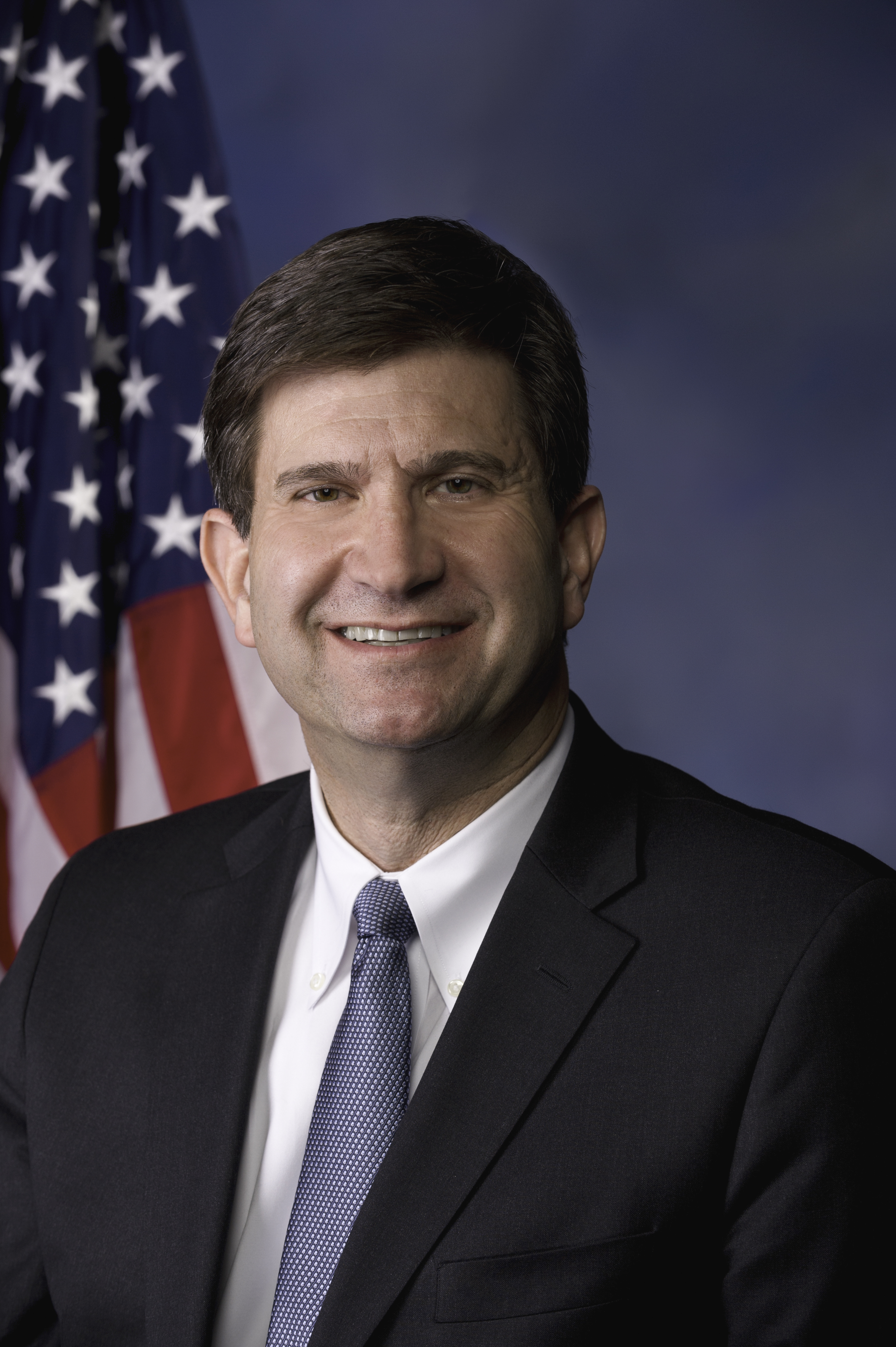 Congressman Brad Schneider